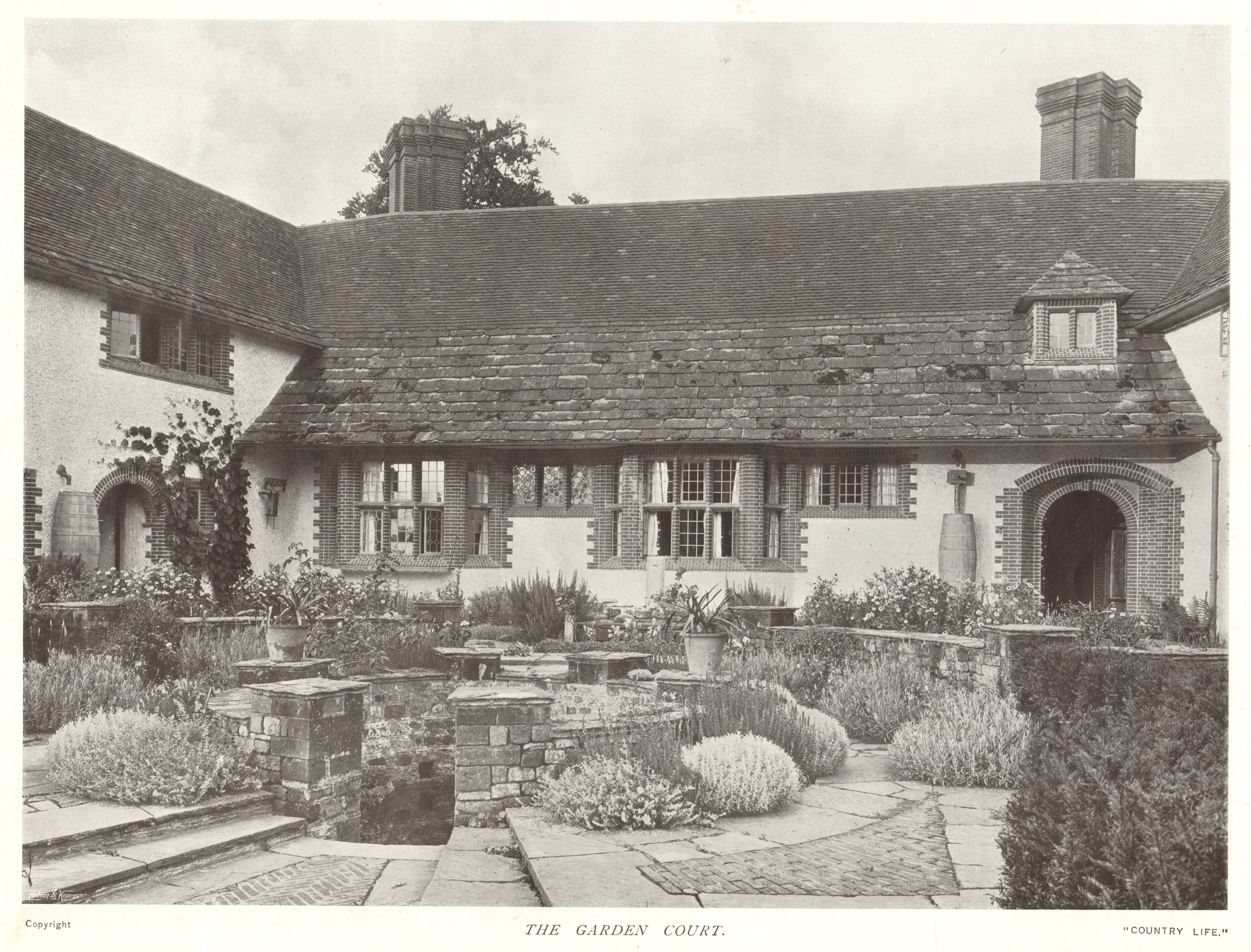 Goddards, Abinger Common. The Garden Court